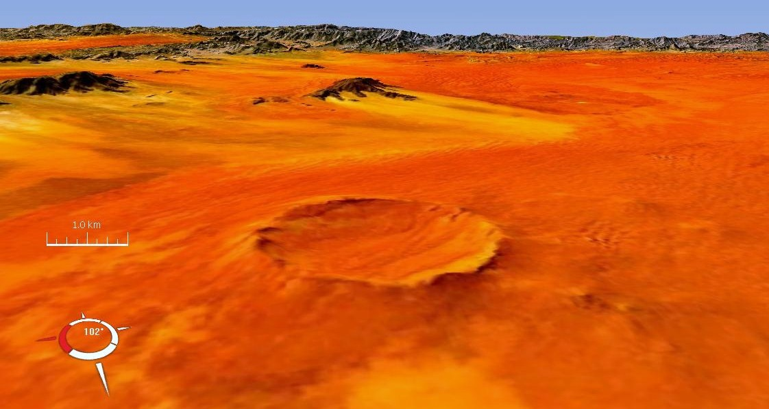 Oblique landsat image of Roter Kamm meteorite impact crater in the Karas province of southern Namibia, draped over digital elevation model with x2 vertical exaggeration